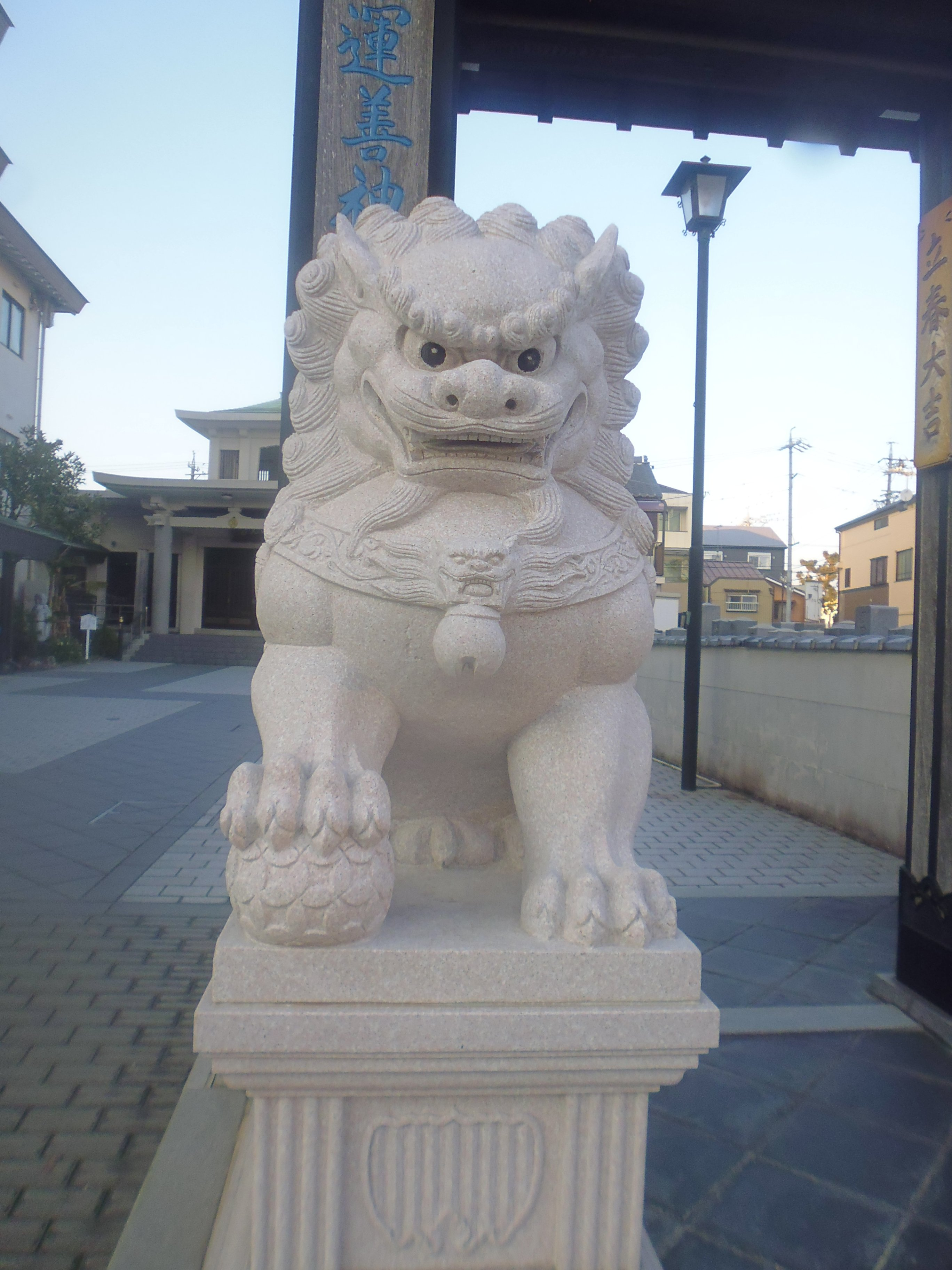 Detail view of the right one of the Komainu of the temple Saikouji (西光寺) in Toyohashi with visible male genitalia